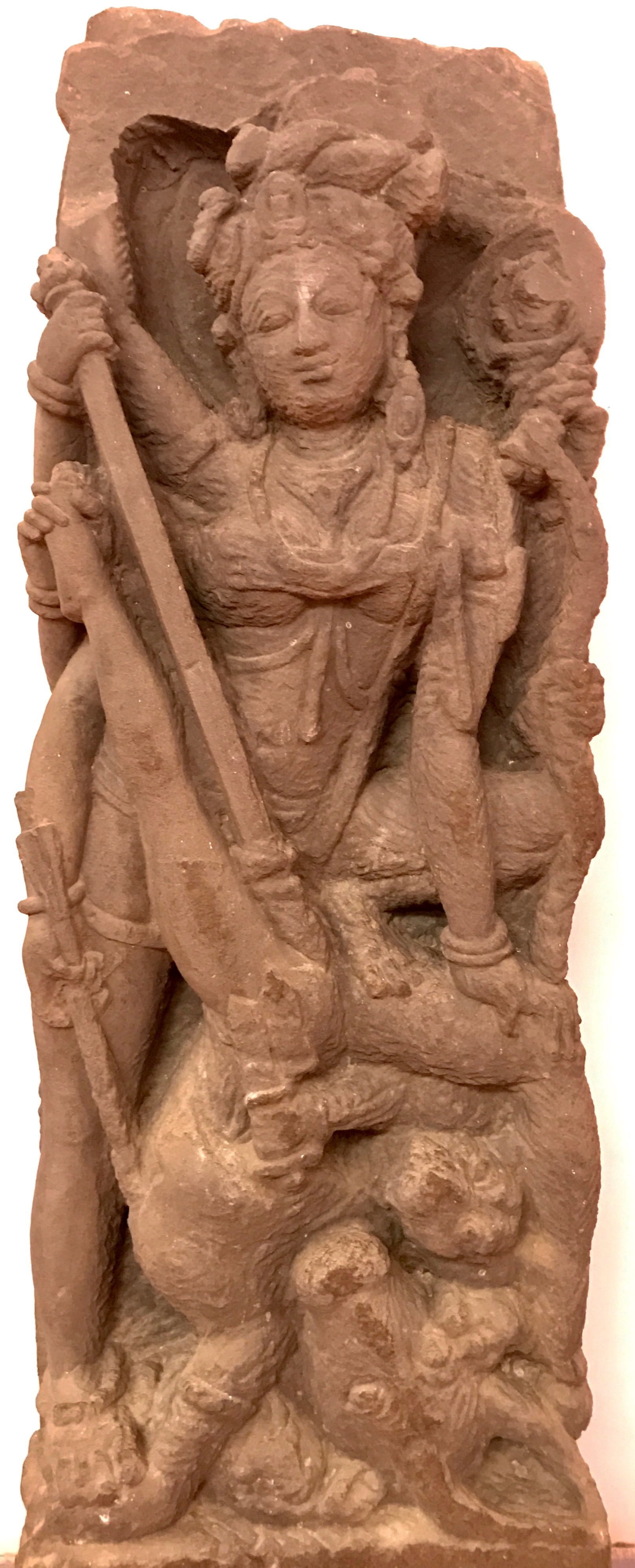 Sirpur, also referred in medieval era texts as Shripur (city of wealth), is a town on the banks of Mahanadi in Chhattisgarh. The site became archaeologically significant after a visit and report on a Laxman (Lakshmana) temple in 1872 by Alexander Cunningham, a colonial British India official. Sirpur is mentioned in the memoirs of the Chinese traveler Hieun Tsang as a location of monasteries and temples. The site has been significant for its temple ruins of Rama and Lakshmana of the Ramayana fame. The site excavations after 1960, particularly after 2003, have yielded 22 Shiva temples, 5 Vishnu temples, 10 Buddha Viharas, 3 Jain Viharas, a 6th/7th century market and snana-kund (bath house). The site shows extensive syncretism, where Buddhist and Jain statues or motifs intermingle with Shiva, Vishnu and Devi temples. The region was conquered and plundered by the armies of Delhi Sultanate and later Deccan Sultanates. The town and temples were damaged in the wars and were abandoned. Dense vegetation grew over it and floods deposited silt. 20th and 21st century excavations have unearthed many monuments. The site is large and artwork stick out of farmlands and dirt roads in and near Sirpur.